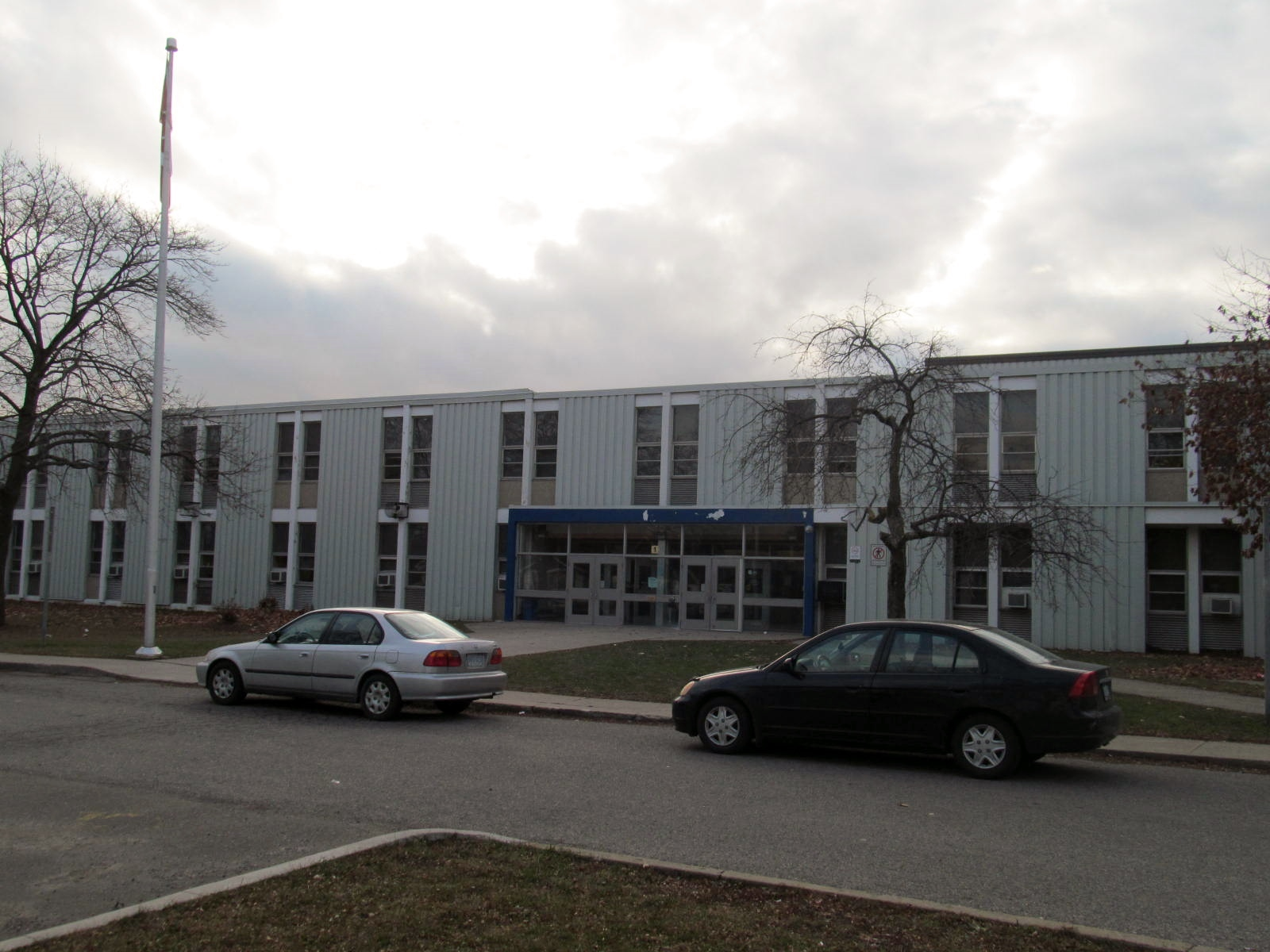 The front facade of the (former) Midland Avenue Collegiate Institute building now currently occupied by SCAS, SEYRAC and Caring/Safe Schools programs.